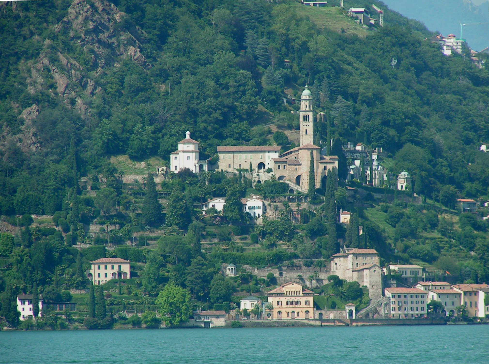 View from the marina of Porto Ceresio (Italy) across Lake Lugano to Morcote (Switzerland)